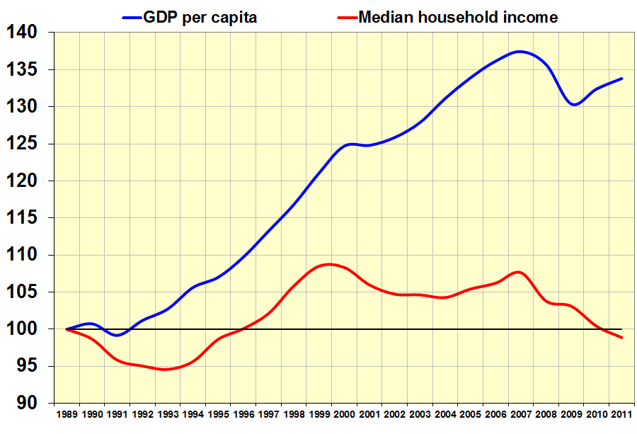 US GDP per capita versus mean household income